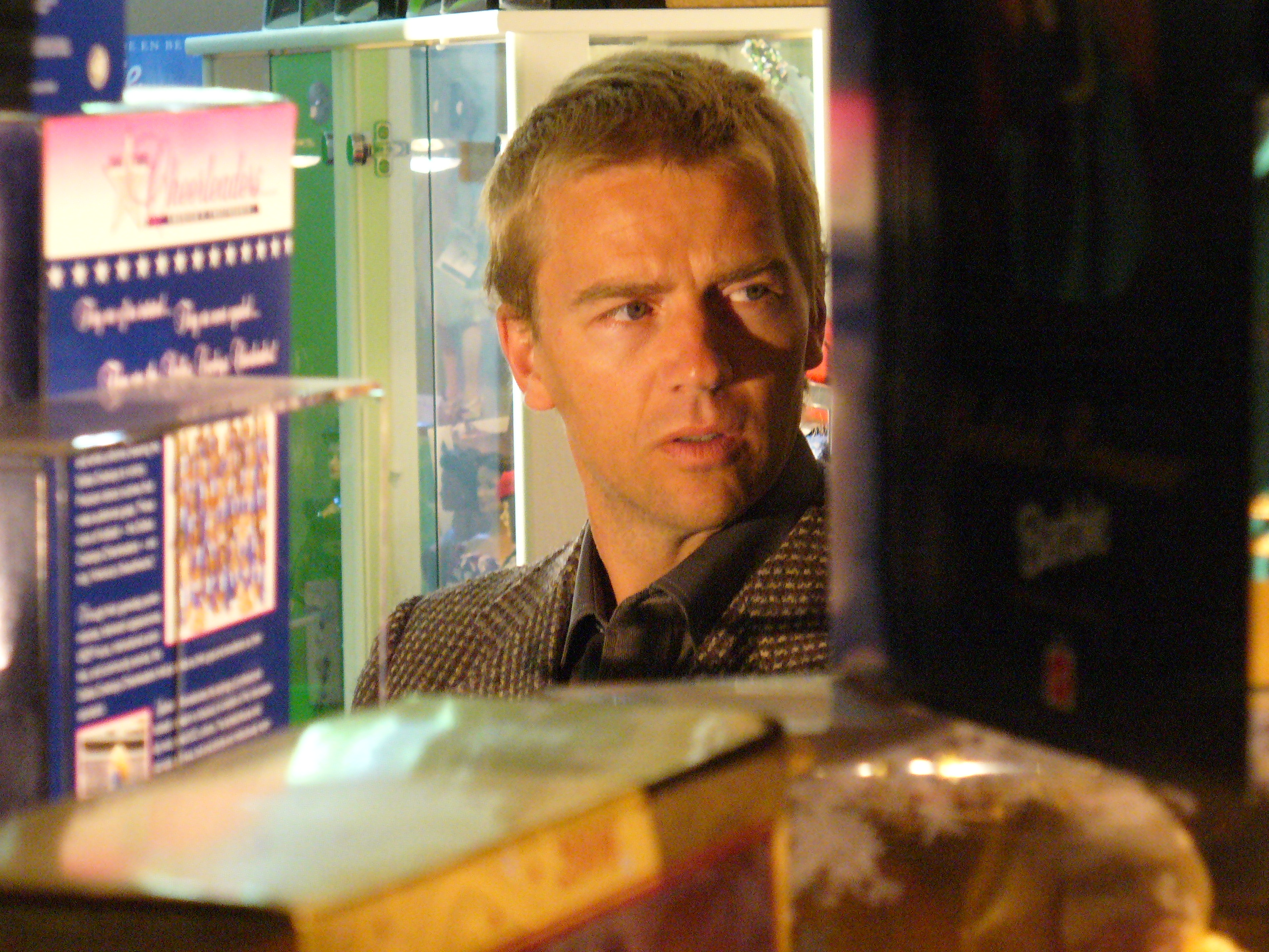 Dutch Actor Antonie Kamerling on the set of the movie The Blue Horse (2009) in Dordrecht, The Netherlands